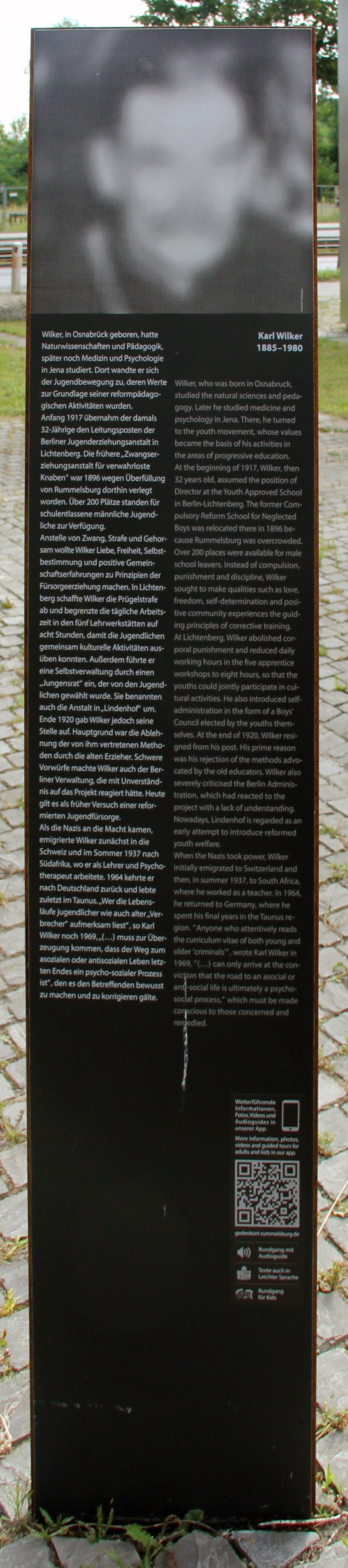 Memorial plaque, Karl Wilker, Hauptstraße 8, Berlin-Rummelsburg, Deutschland